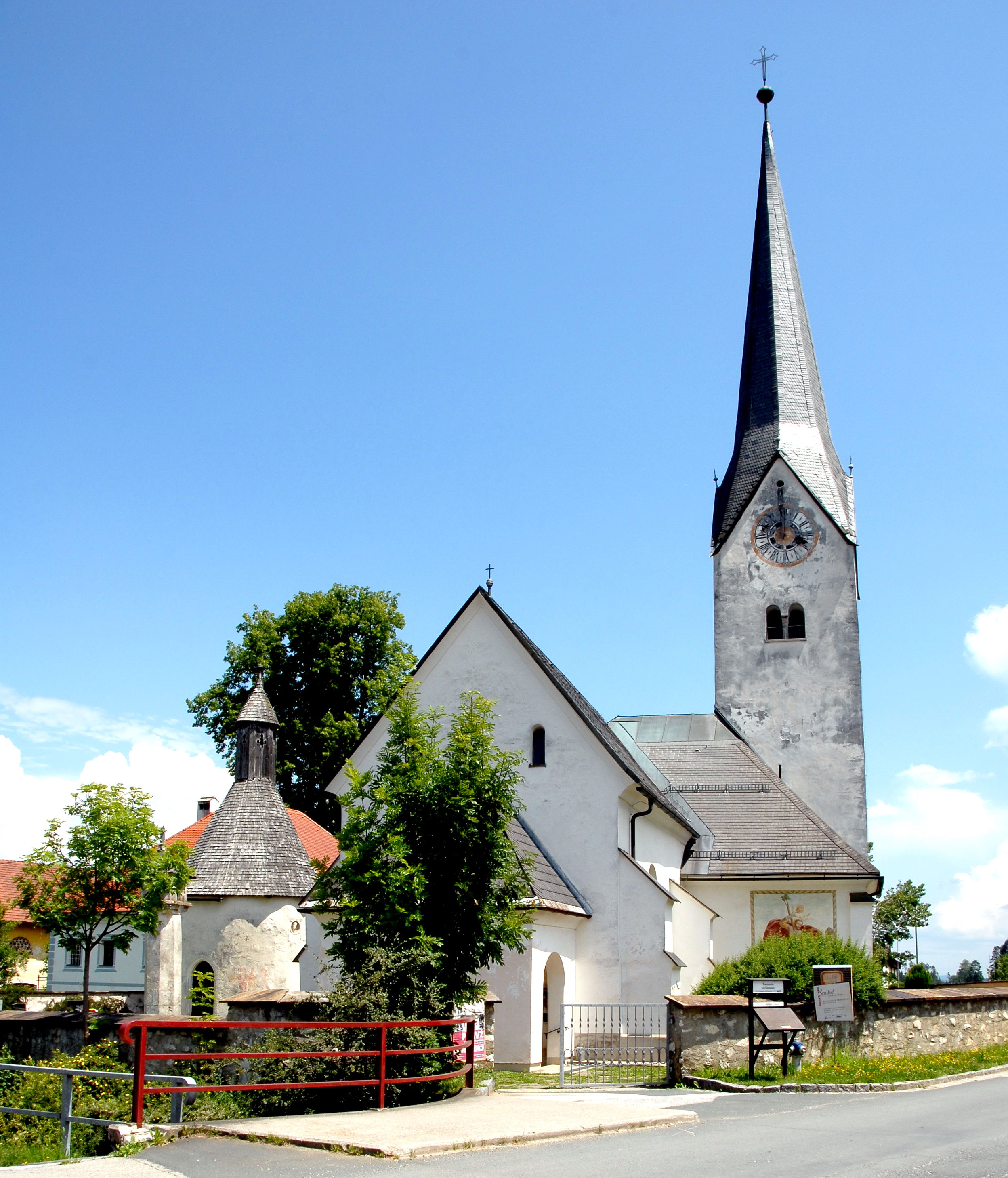 Parish church the Assumption, municipality Globasnitz, district Völkermarkt, Carinthia, Austria, EU